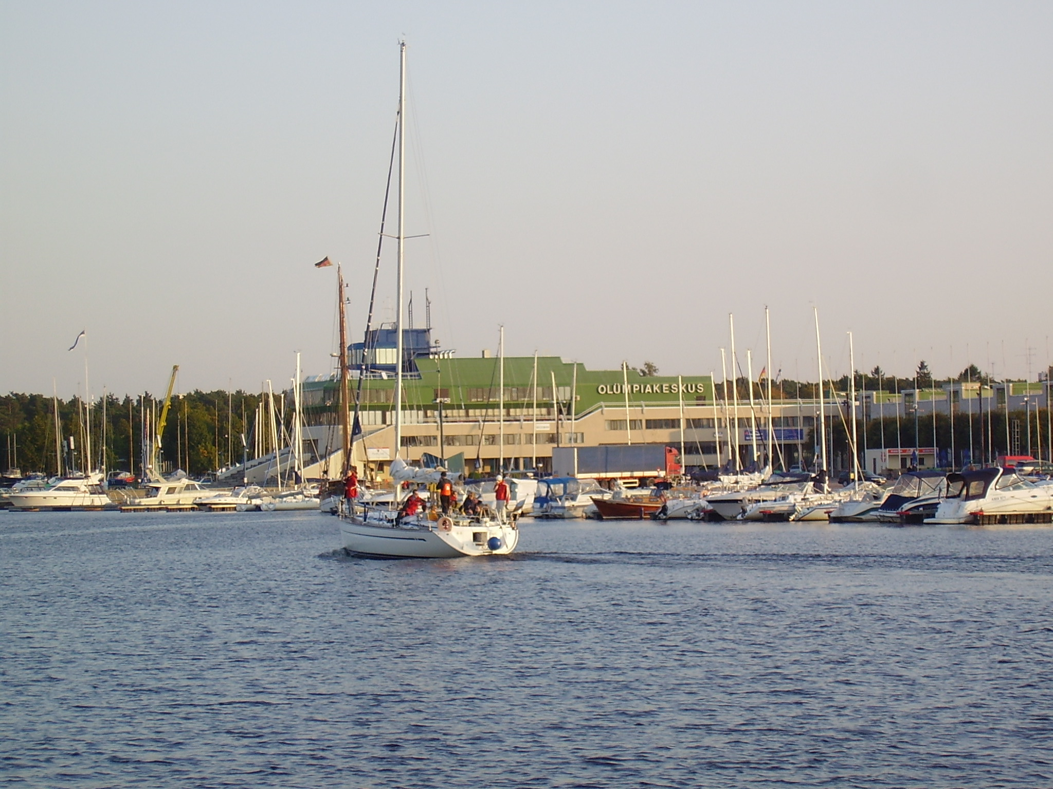 Pirita Olympic Regatta Center (distant view)